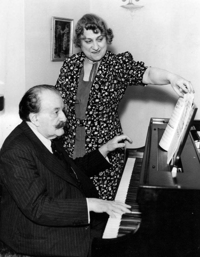 Publicity photo of classical pianist Moriz Rosenthal and his wife as he prepared for a Grant Park (Chicago) concert. His wife was also an accomplished pianist.